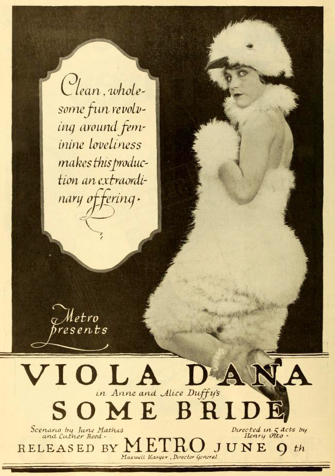 Advertisement for Some Bride (1919) with Viola Dana. Moving Picture World, June 1919.